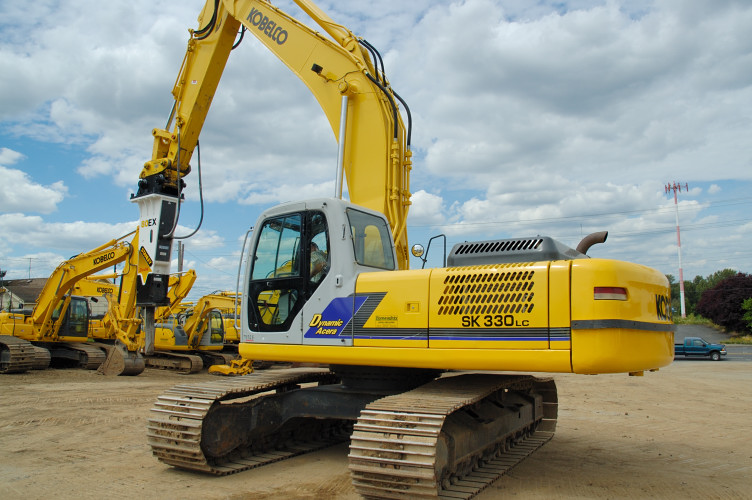 Kobelco SK330LC with Stanley MB80EX breaker installed.